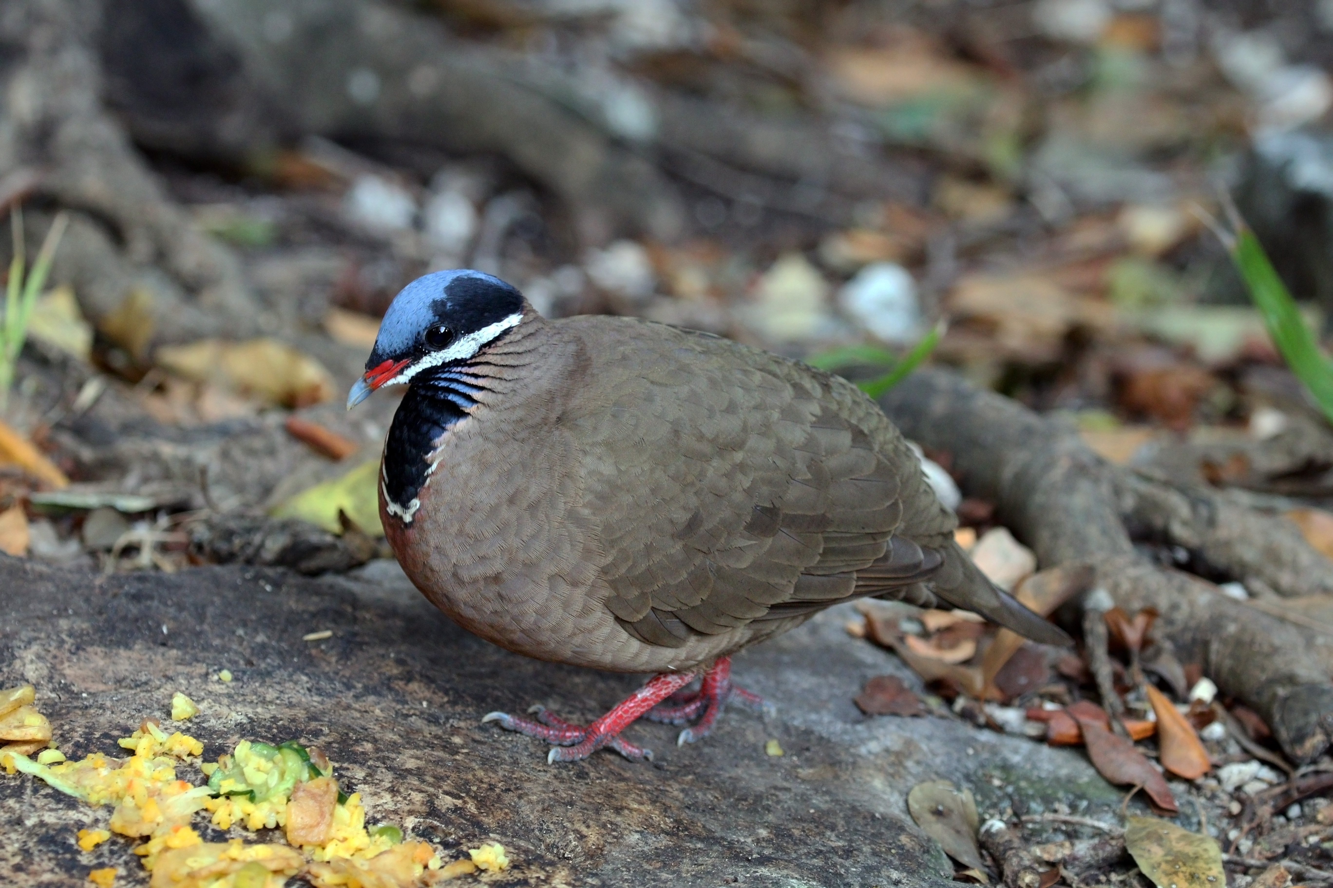 Blue-headed quail dove (Starnoenas cyanocephala), Cueva de los peces, Near Playa Larga, Cuba